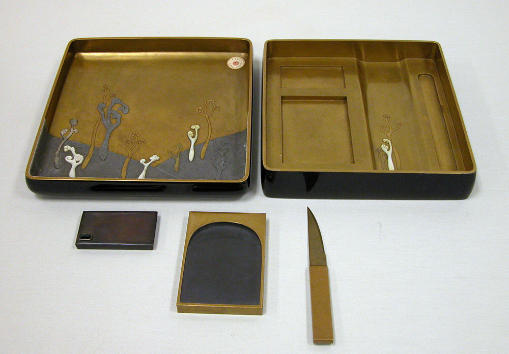 Japan; Writing box; Lacquer